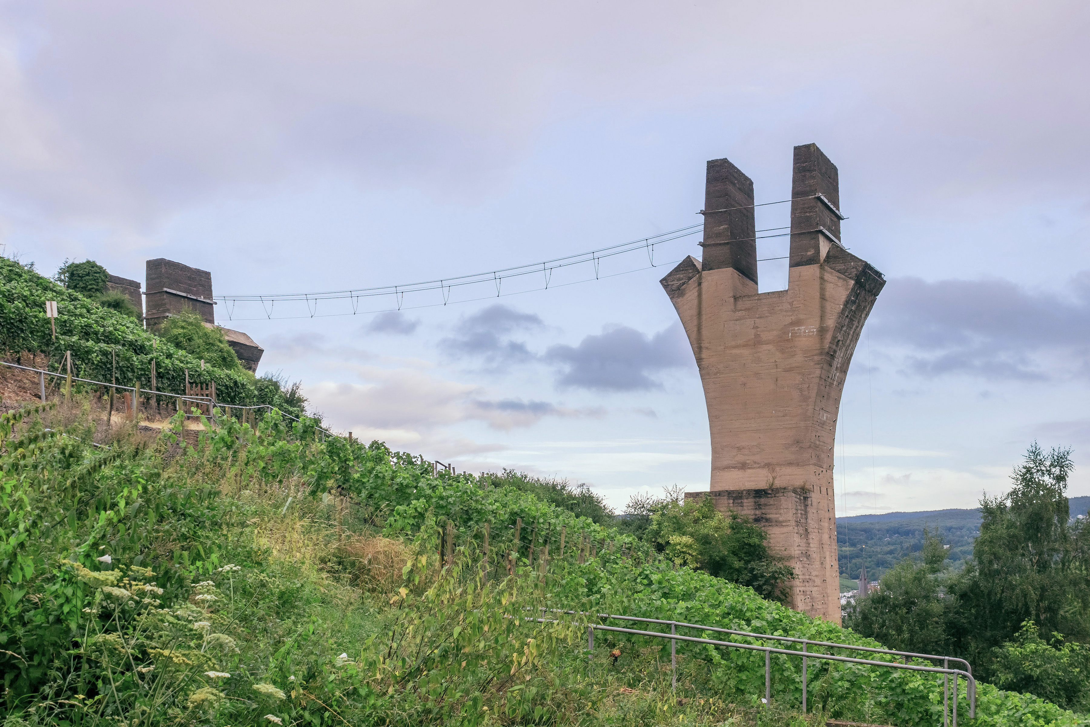 Adenbachviaduct in Ahrweiler. Part of an unfinished railway line.